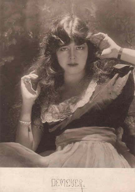 Ann Pennington in "Scandals of 1920".